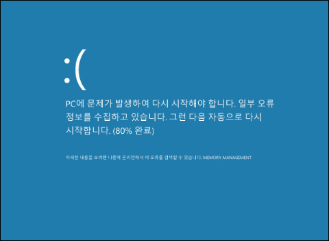 windows 8/8.1/10 Bsod